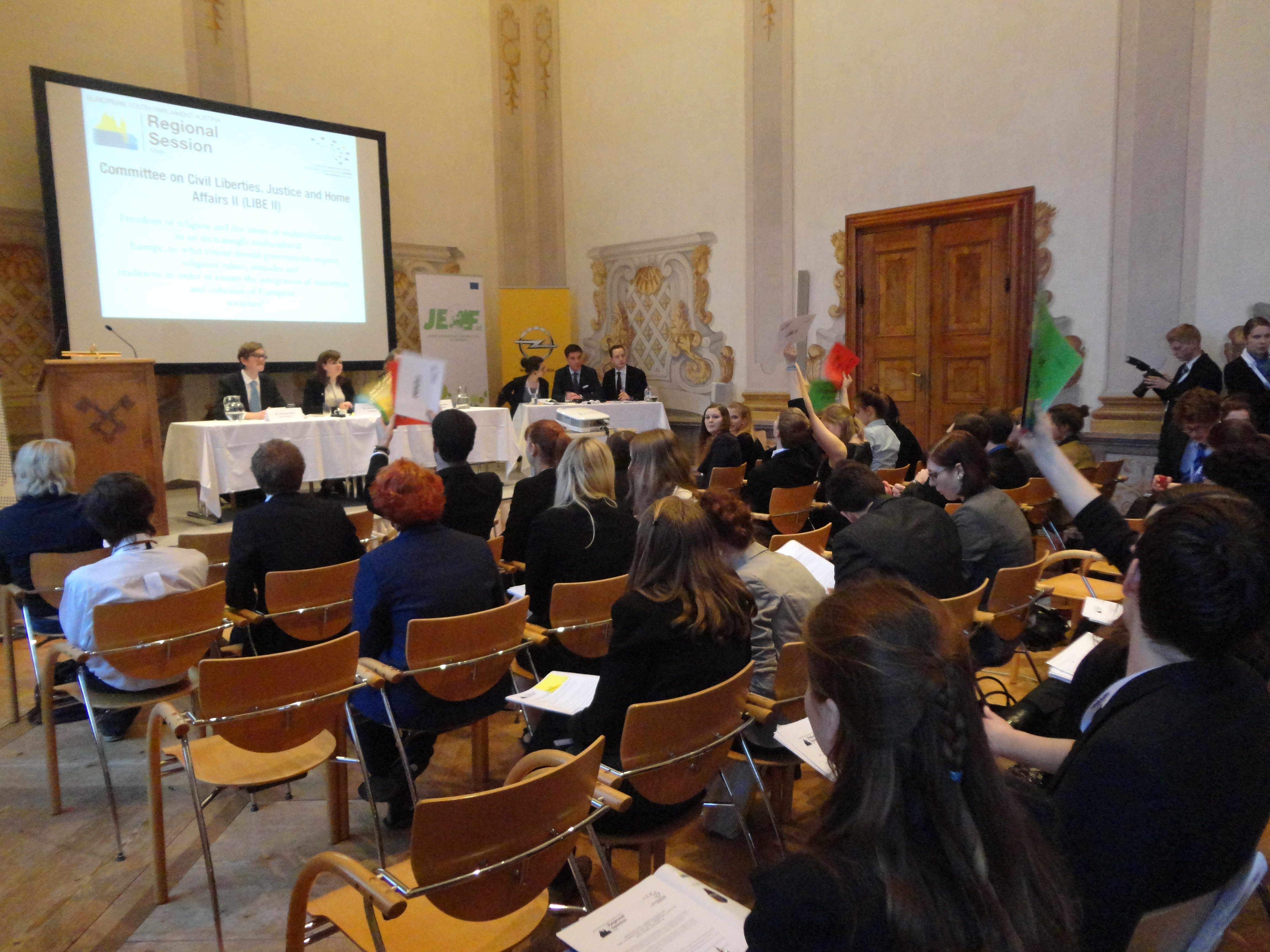 General Assembly of the EYP Event in Melk, Austria, February 2014.